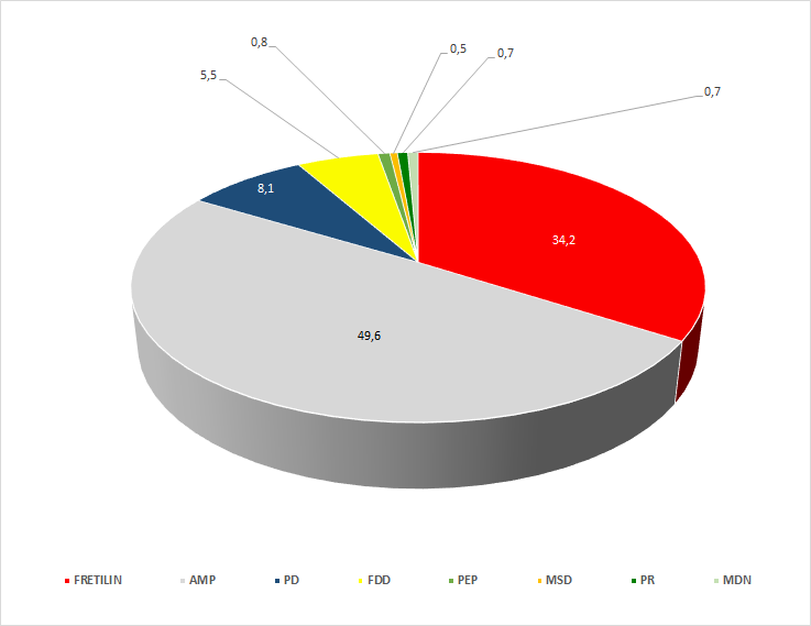 Results of parliament election in East Timor 2018